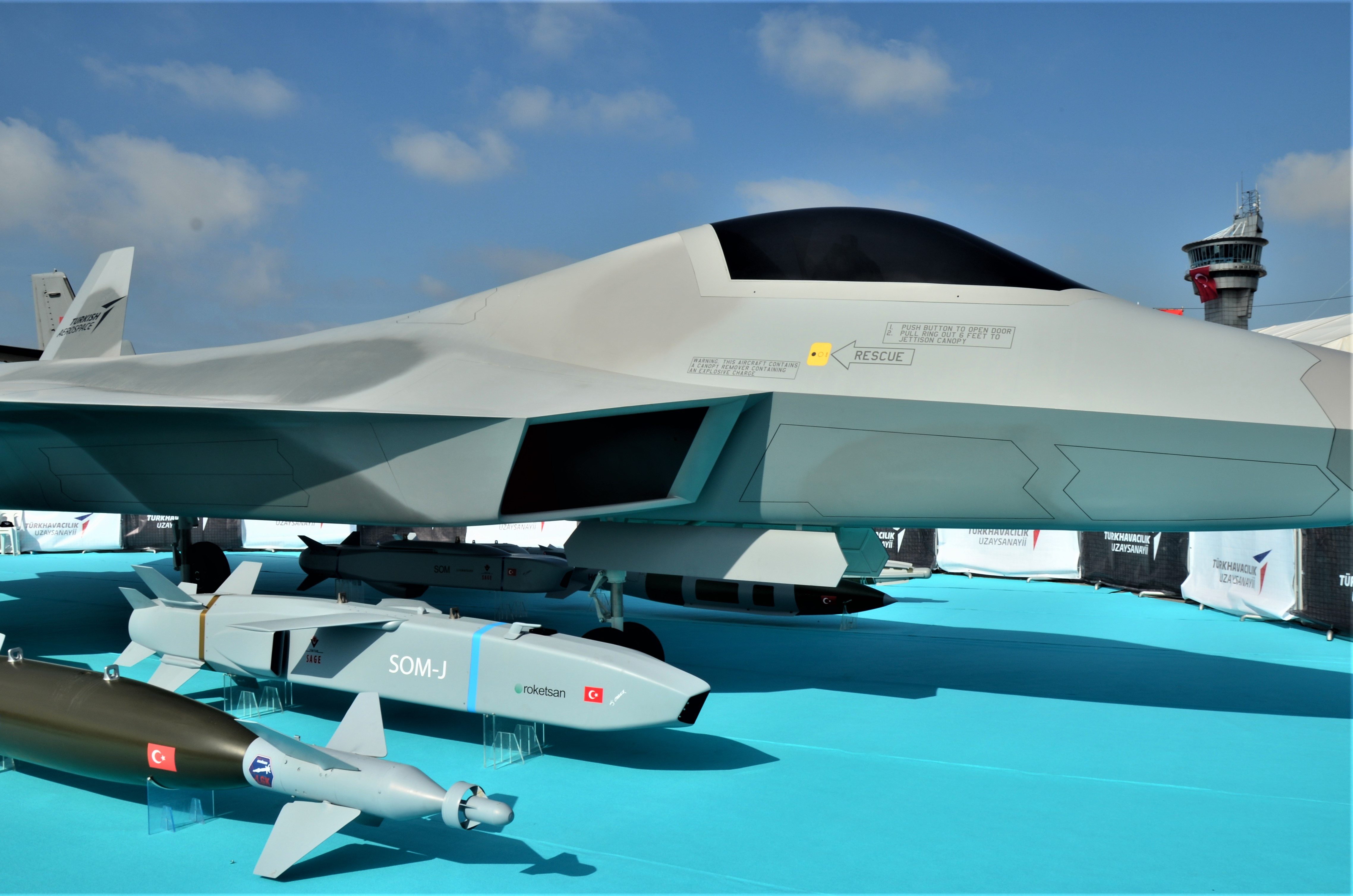 TF-X (MMU) fighter mockup of TAI at Teknofest 2019